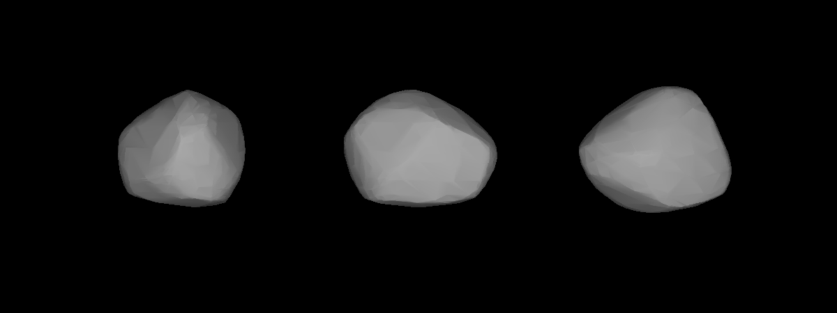 A three-dimensional model of 40 Harmonia that was computed using light curve inversion techniques.